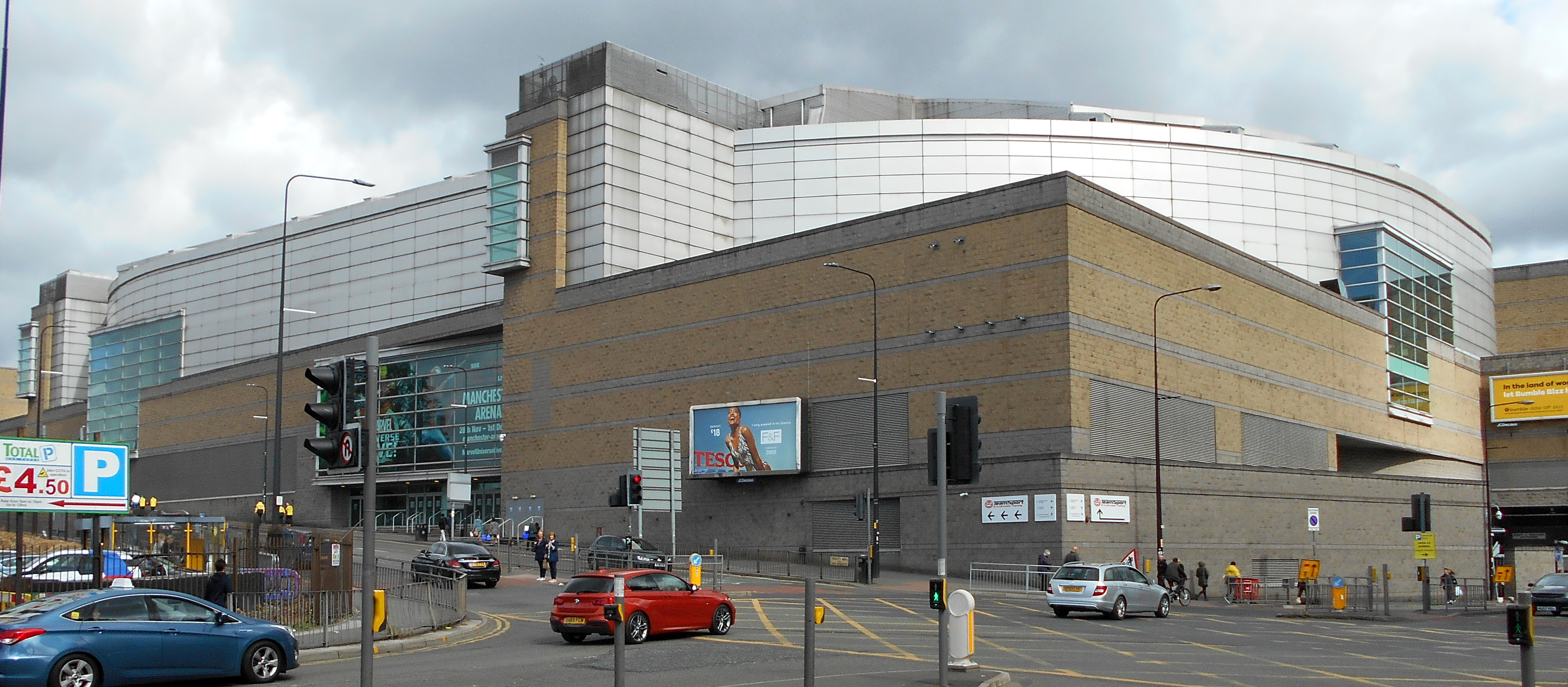 Manchester Arena exterior seen from the north from the crossroads of Trinity Way and Great Ducie Street.